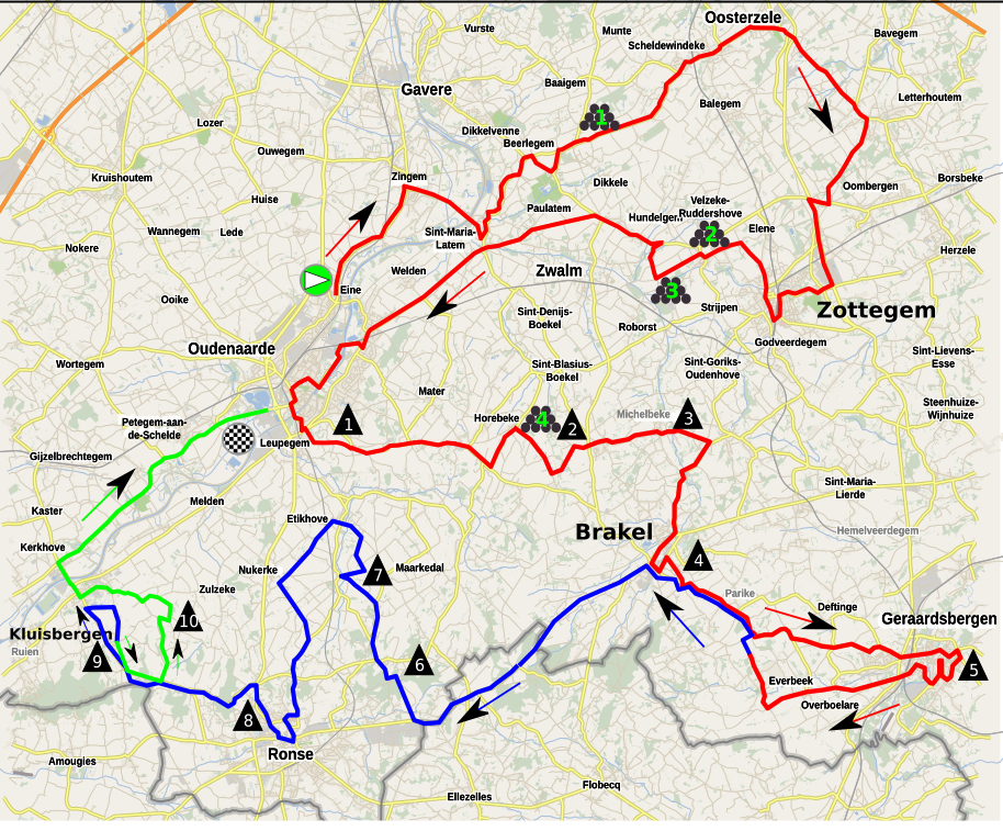 Map of the Ronde van Vlaanderen vrouwen 2019.